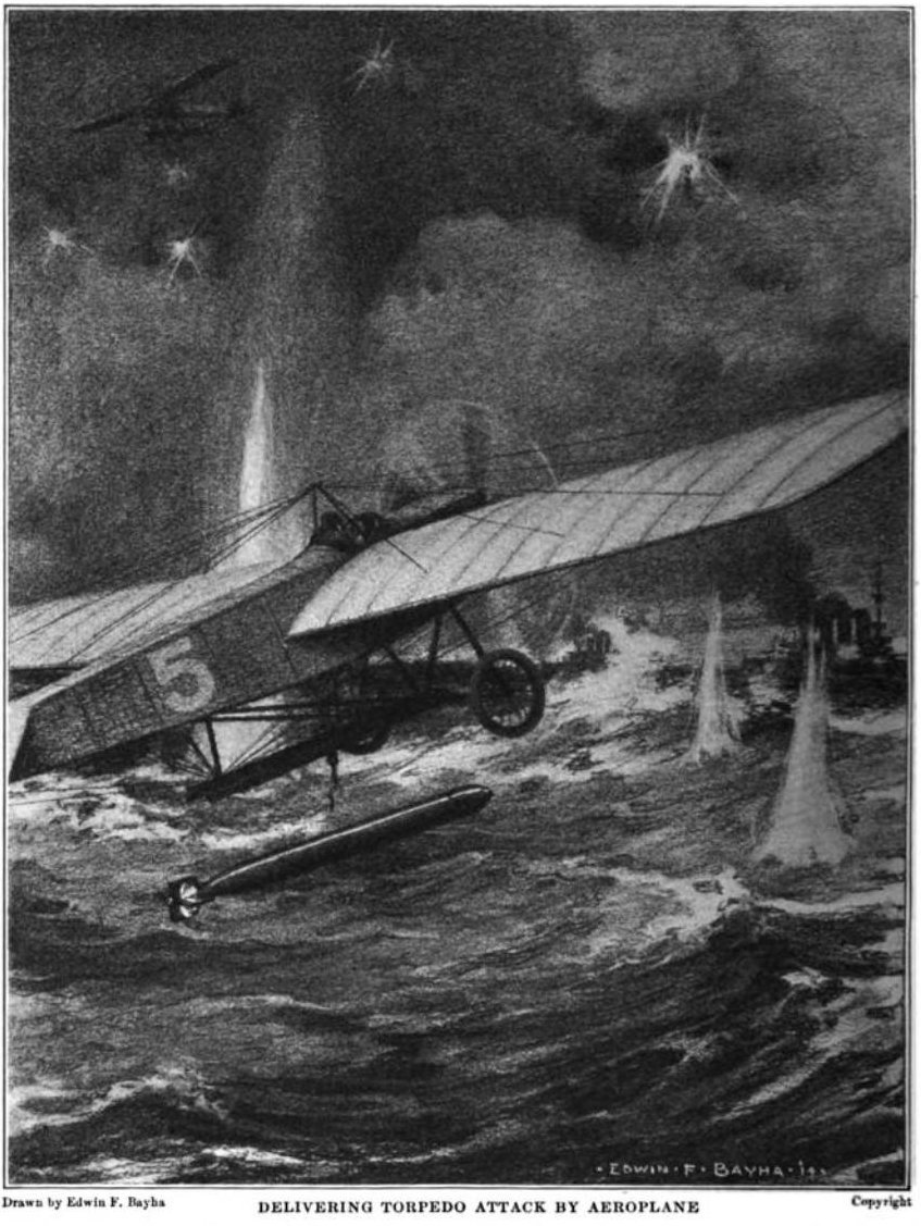 Artist's conception of a proposed night-time aerial torpedo attack, published on page 300 of The Scientific American war book in 1915.